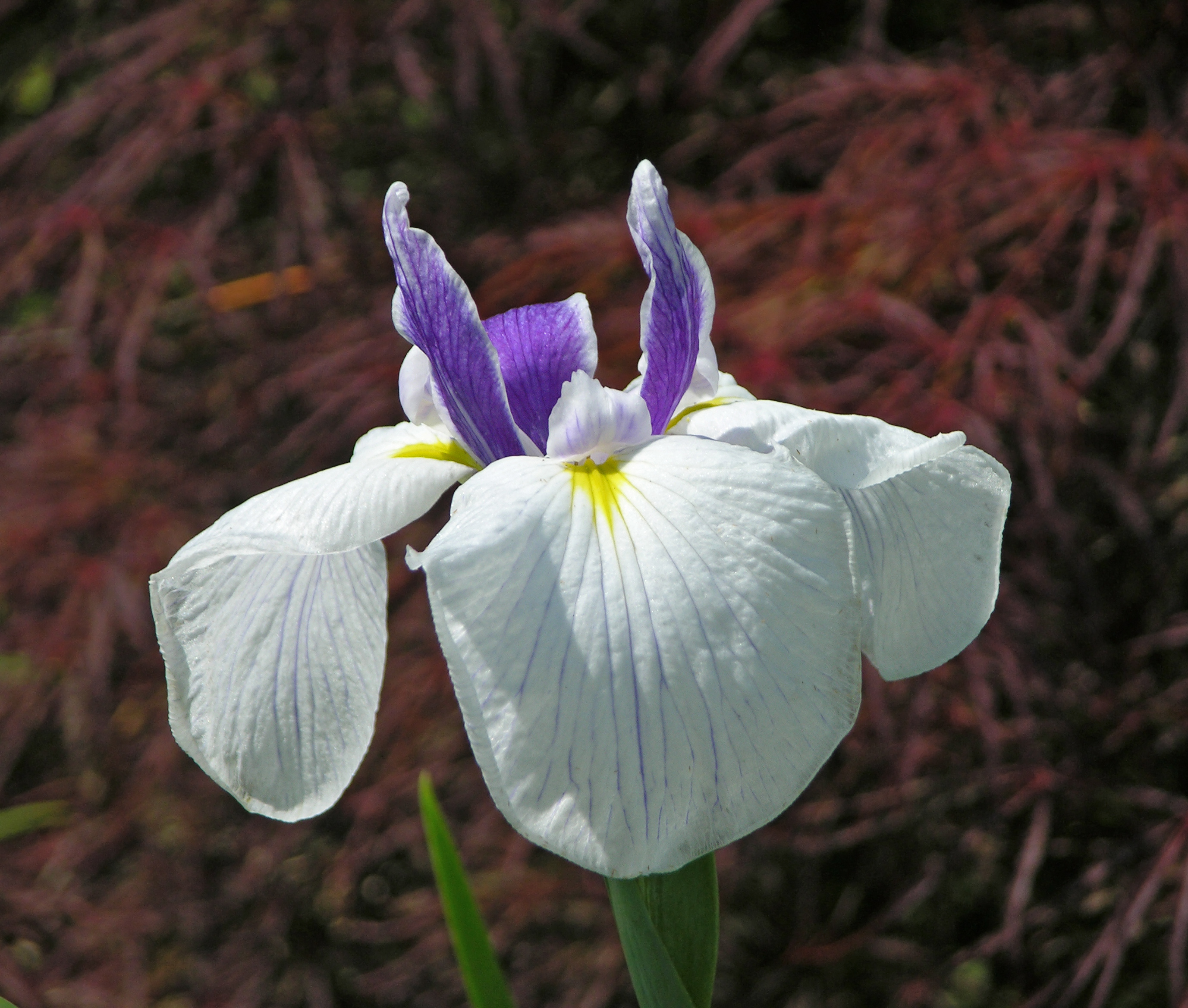 Picture of a recently identified Irisen (Iris en sp.) flower. Photo taken in Bed 3 of the Pond garden at the Chanticleer Garden. The species, unidentified at the time the photo was taken, is one of the following listed iris species planted in that bed: Iris 'Arctic Fancy' Iris ensata 'Blue Beauty' Iris ensata 'Blue Embers' Iris ensata 'Electric Rays' Iris ensata 'Saru Odori' Iris 'Galleon Gold' Iris spuria UPDATE: A botanist and Iris collector has recently identified this photo as Iris spuria 'April's Birthday'.